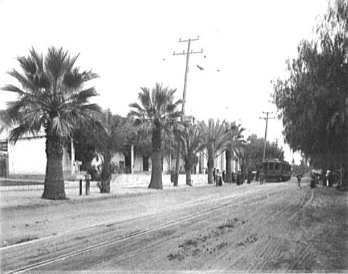 Mission San Gabriel Arcangel, with a Pacific Electric Railway streetcar and new palms as street trees, circa 1905 in San Gabriel, Southern California.